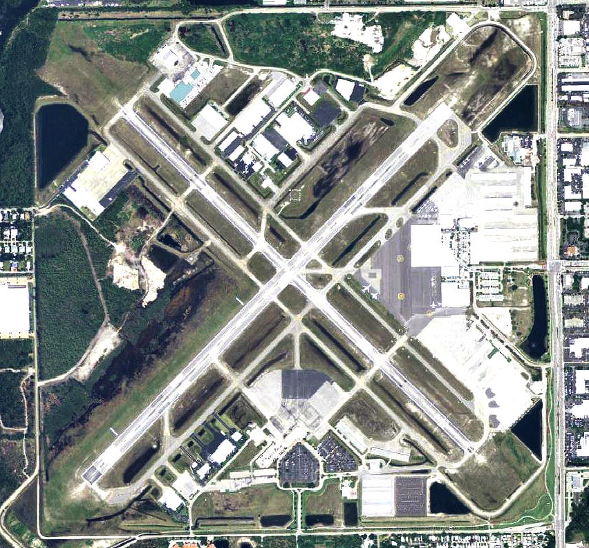 USGS digital orthophoto of Naples Municipal Airport in Florida